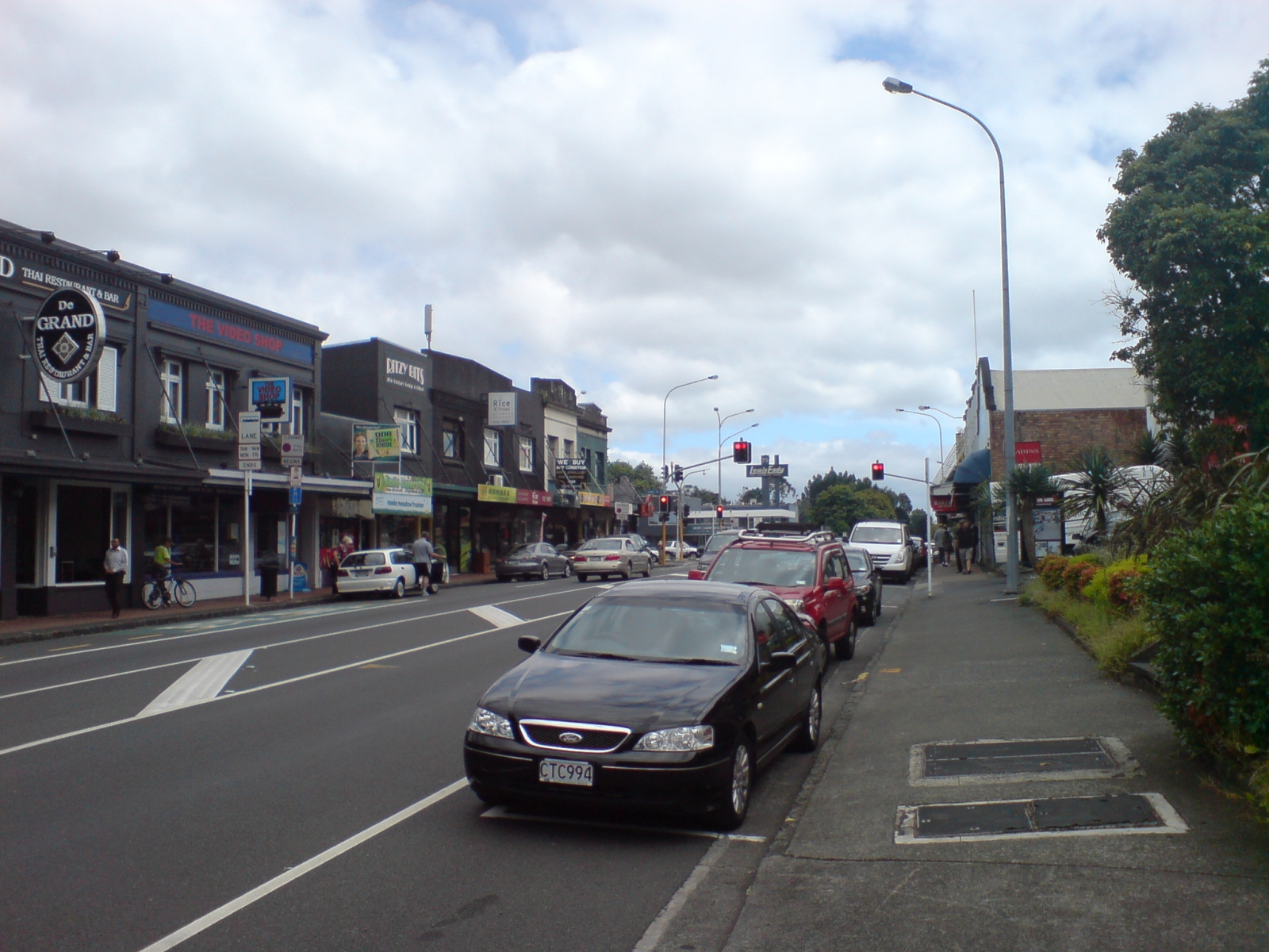 Great South Road in Auckland, New Zealand. Looking north from south of Market Road.